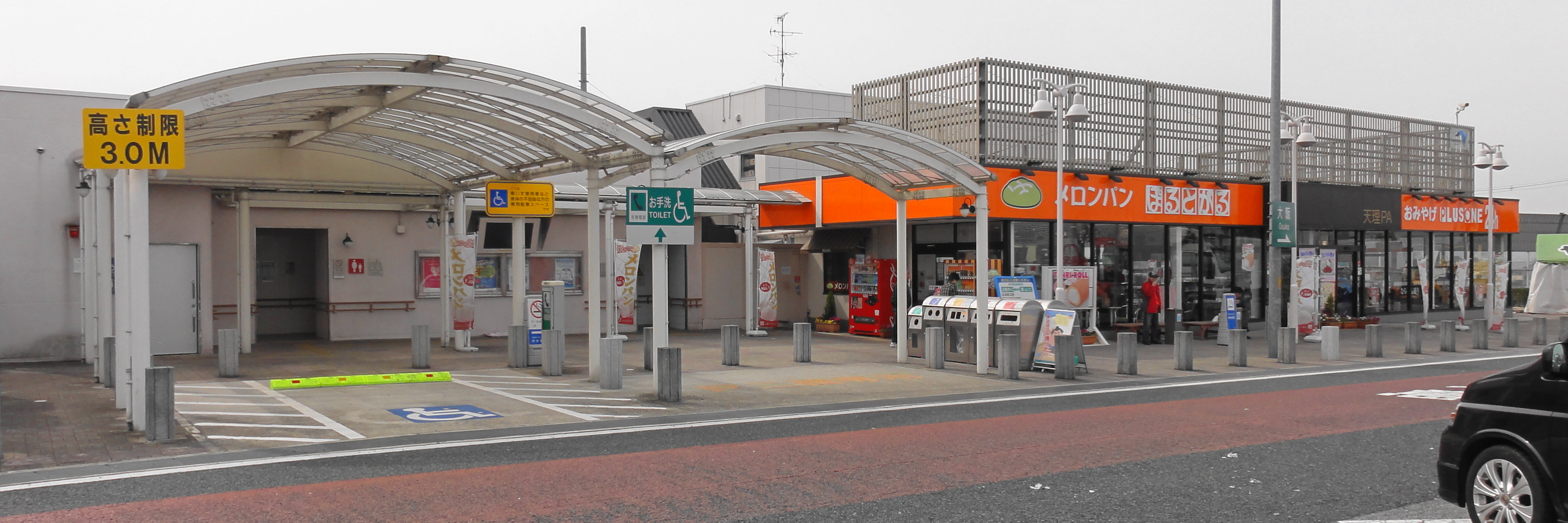 Tenri Parking Area nobori,Nara prefecture, Japan